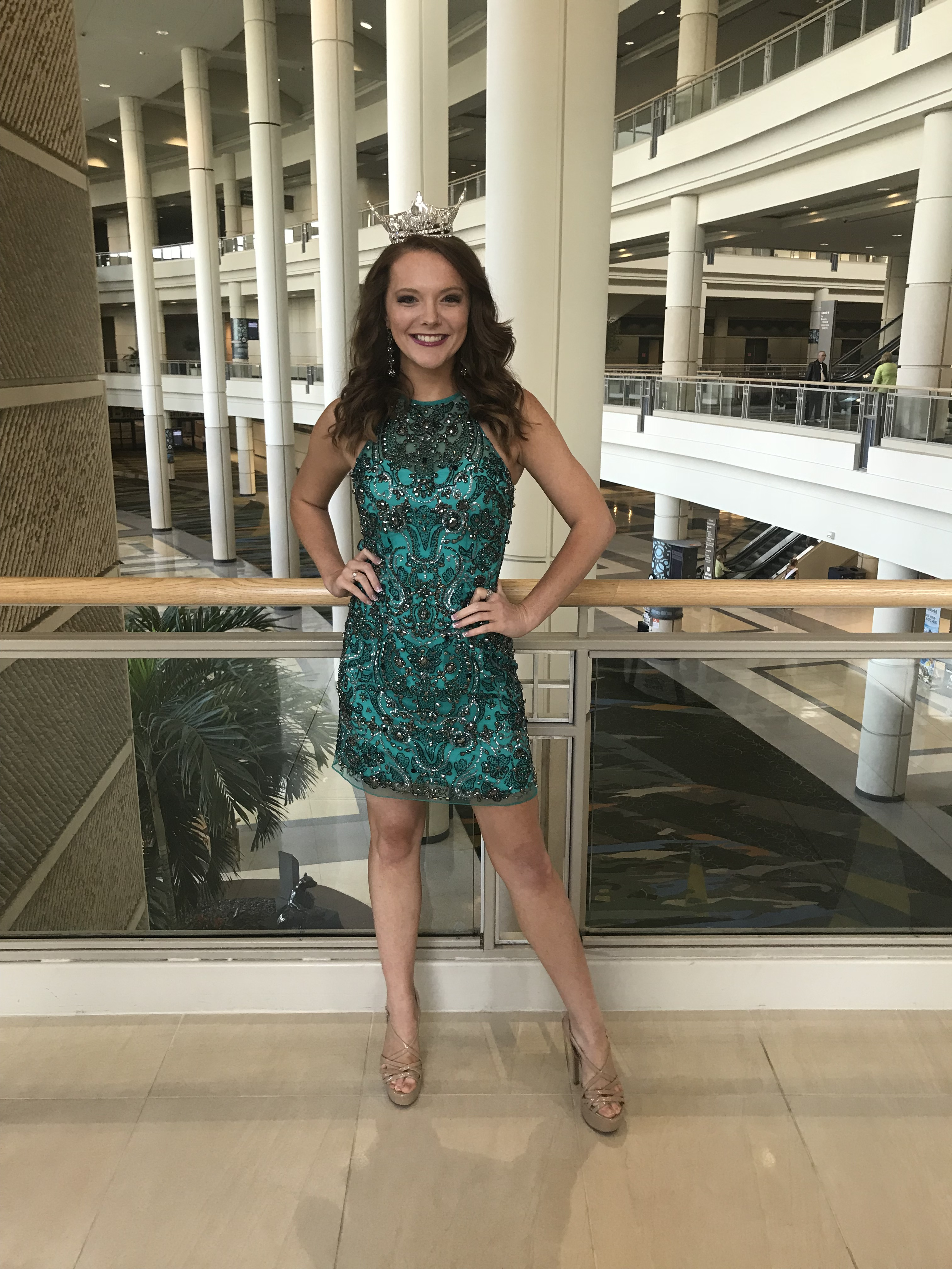 Matti-Lynn Chrisman Miss Ohio 2018